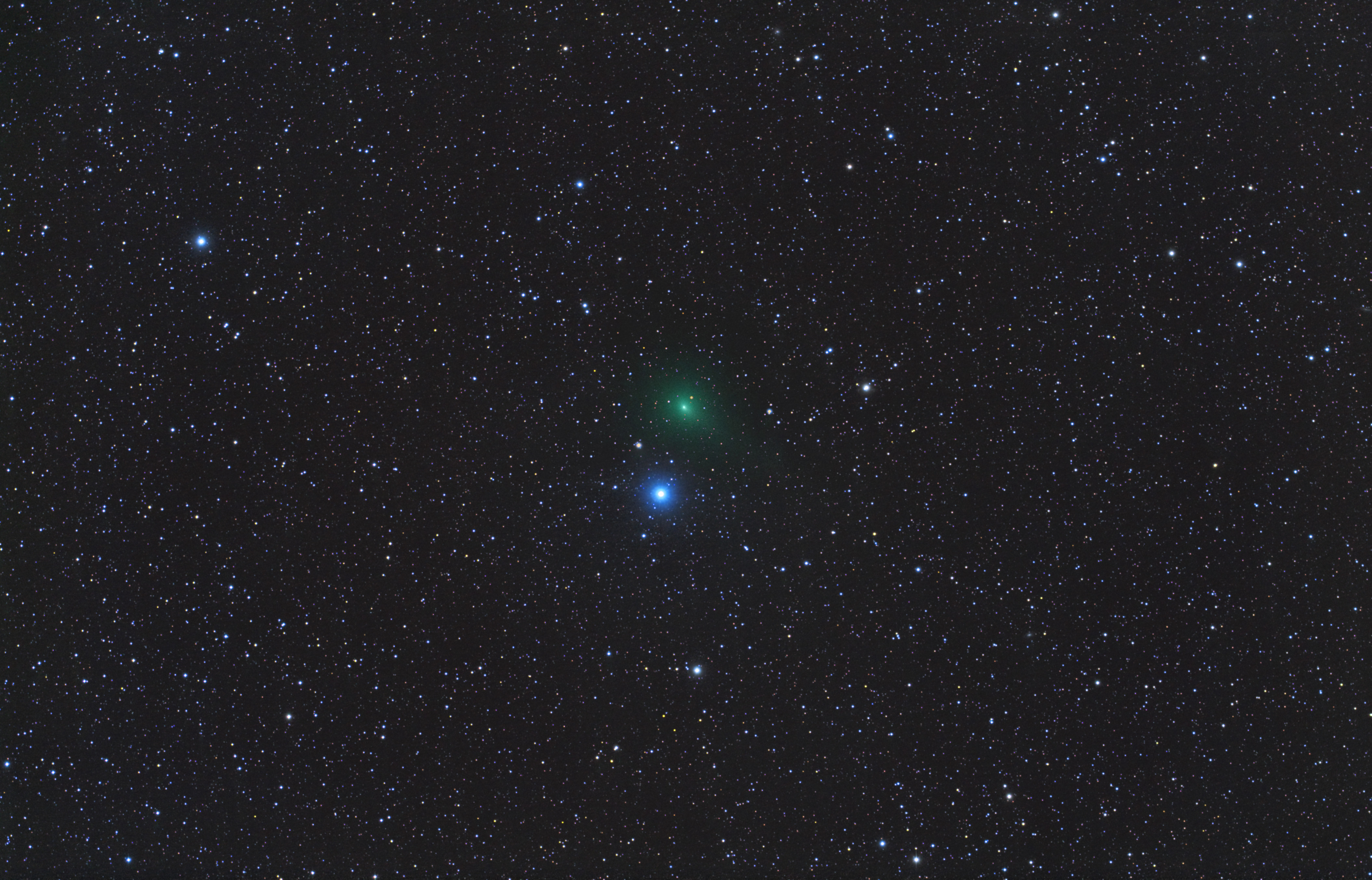 Comet C/2017 O1 (ASASSN) on Oct 29, 2017, near the star Alpha Camelopardalis